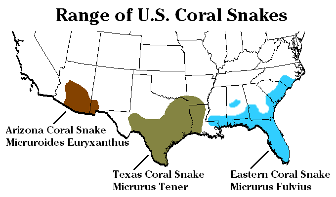 Three species of coral snake are found in the United States.